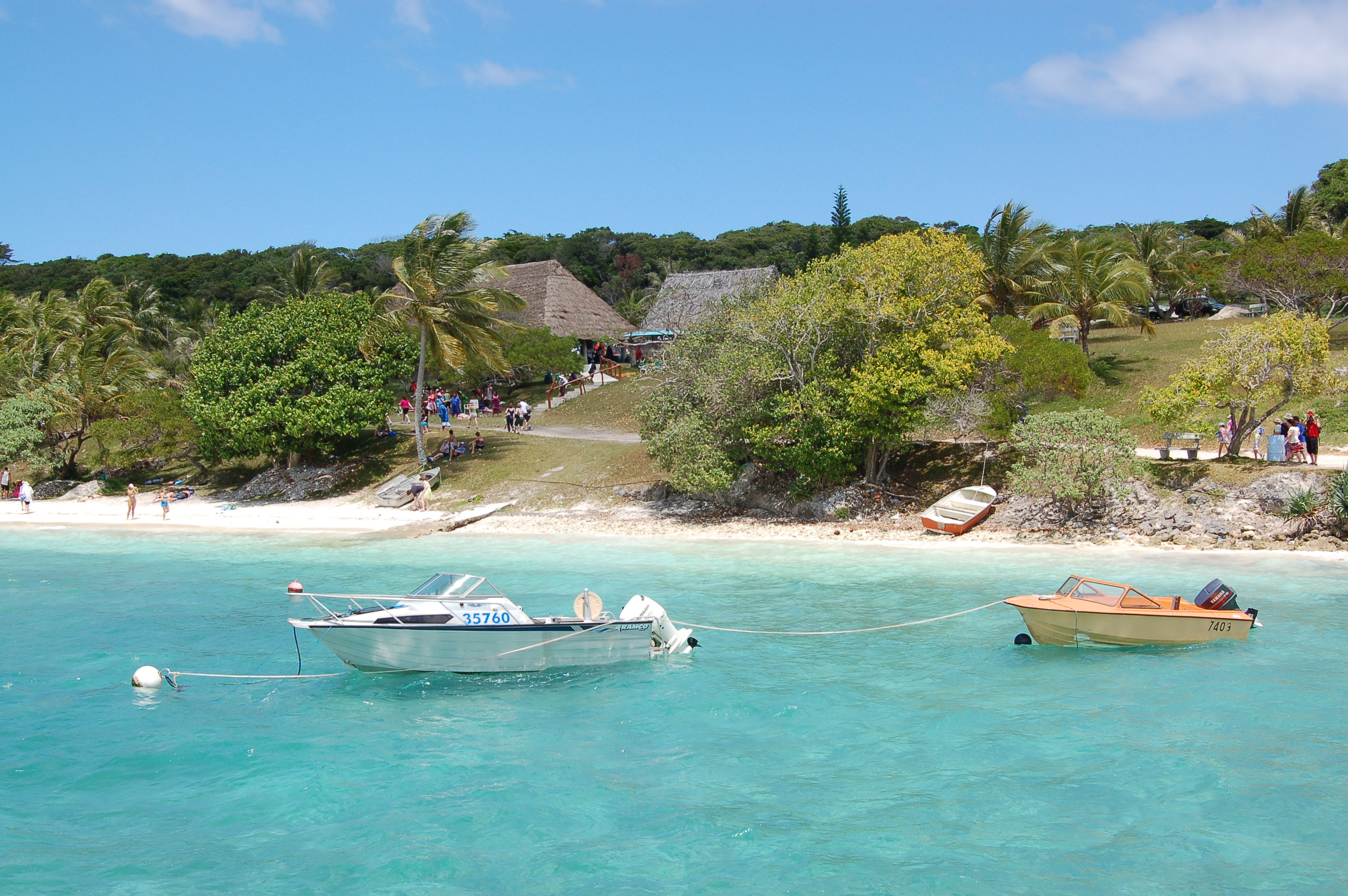 View of the waterfront at Easo, Santal Bay, Lifou, New Caledonia.